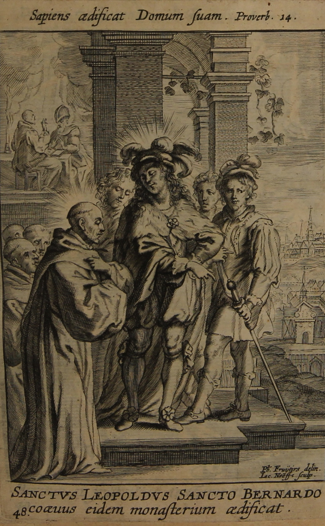 Copperplate print by Jacobus Neeffs, 1653 in 'Sancti Bernardi Melliflui Doctoris Ecclesiae, Pulcherrima & Exemplaris Vitae Medulla' p. 405. St. Leopold III builds a monastery for Bernard. Presumably Heiligenkreuz is meant, although this claim is not based on fact.